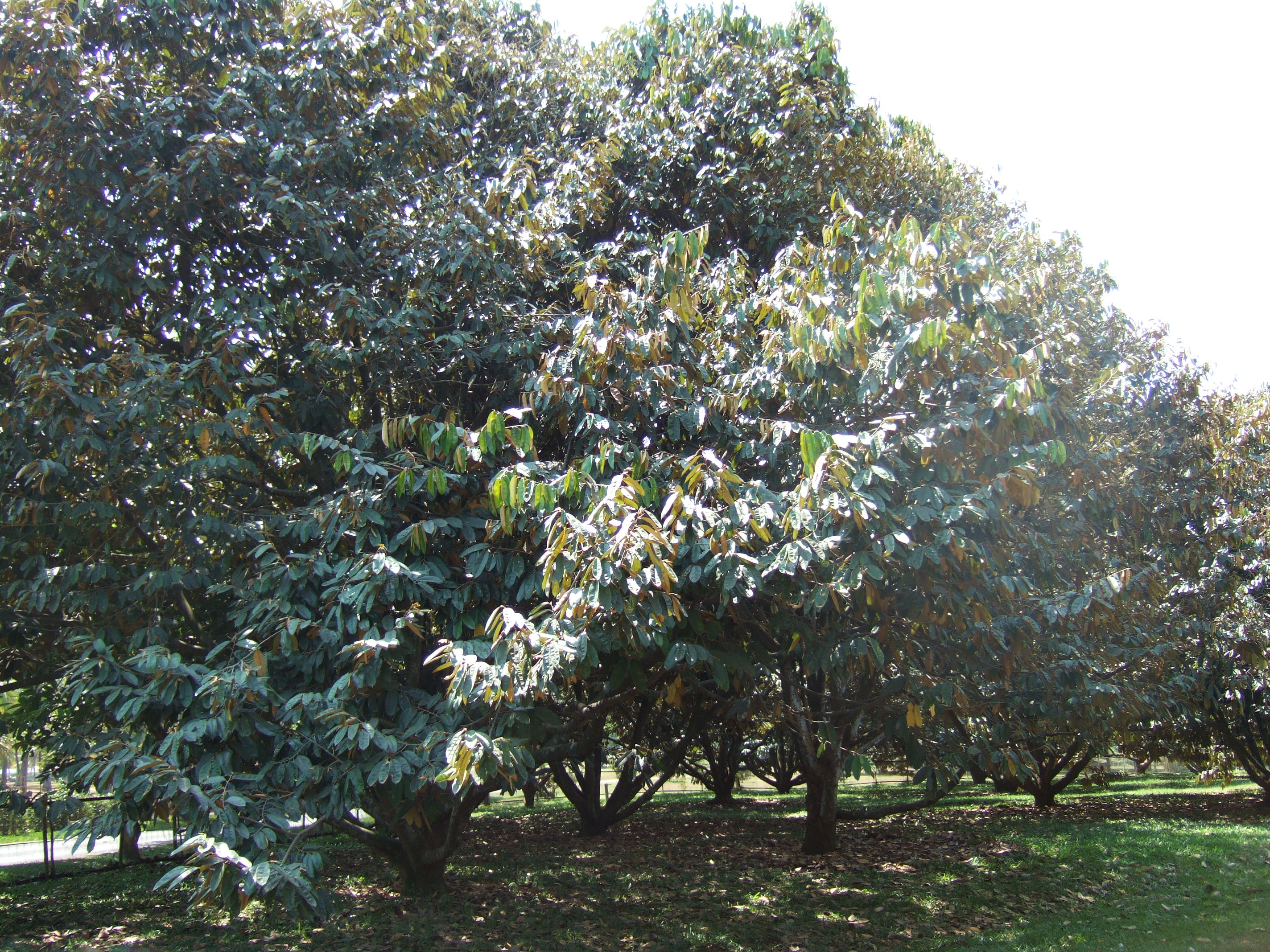 Durian tree, Taman Wisata Mekar Sari, West Java, Indonesia